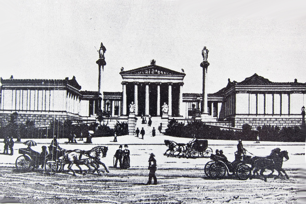 The Academy of Athens, designed by Theophil Hansen